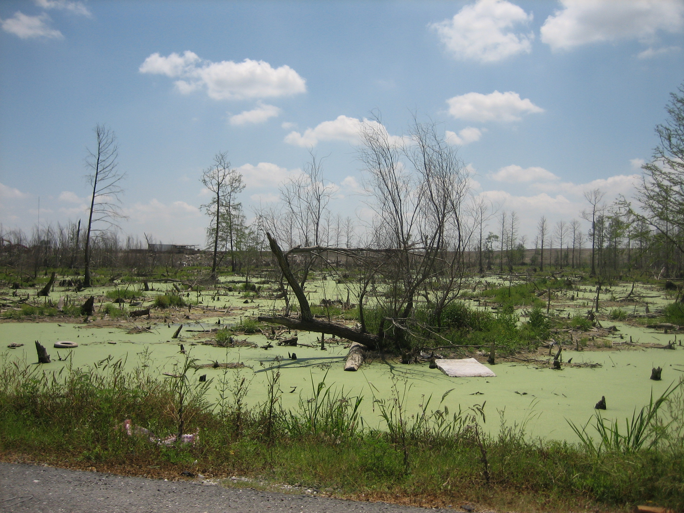 Eastern New Orleans: Long closed Old Gentilly Landfill was reopened to cope with debris after Hurricane Katrina. Unofficial unauthorized dumping was made nearby. View from Old Gentilly Road across patch of swamp towards MRGO levee.